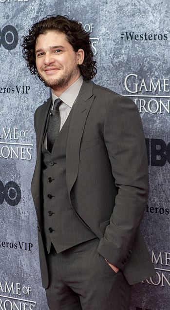 English actor Kit Harington at HBO's "Game Of Thrones" Season 3 Seattle Premiere at Cinerama.